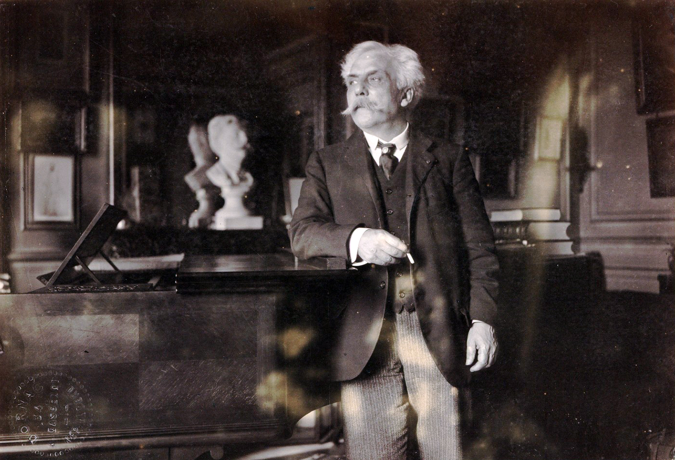 Gabriel Fauré, next to his piano, in his appartement in the boulevard Malesherbes, Paris.